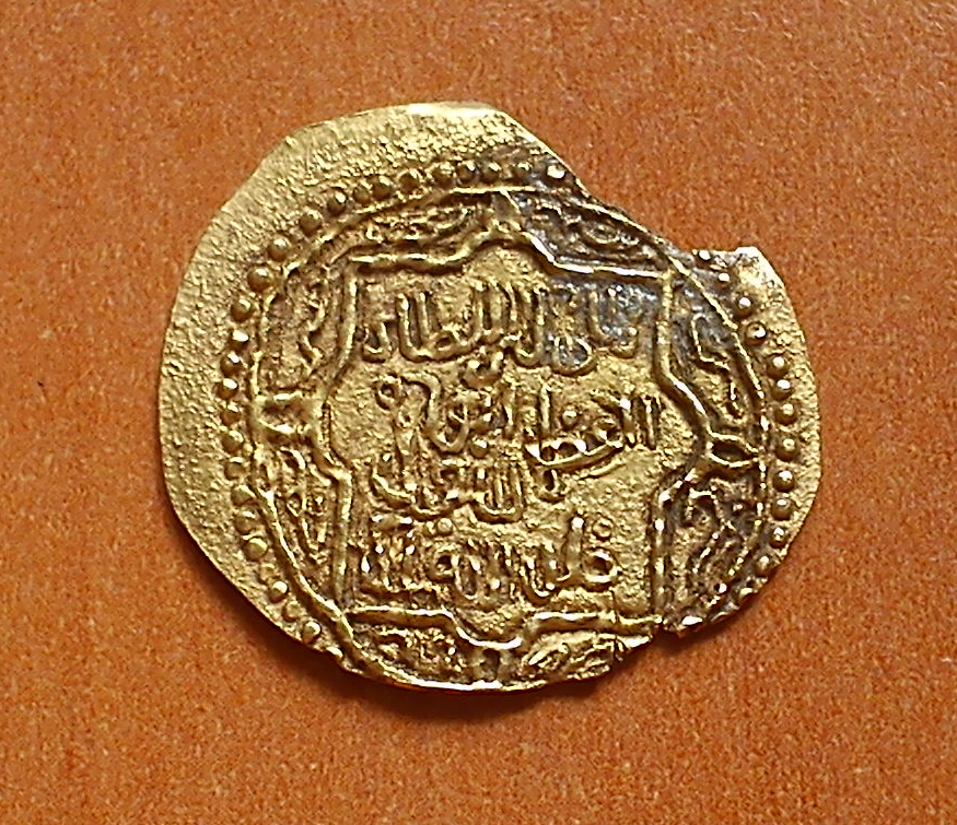 Golden coin of the Ilkhanid realm. (See discussion page).